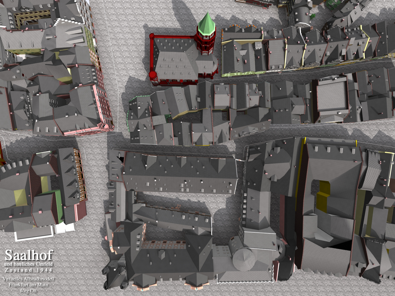 Frankfurt on the Main: Aerial view of the Saalhof and surroundings